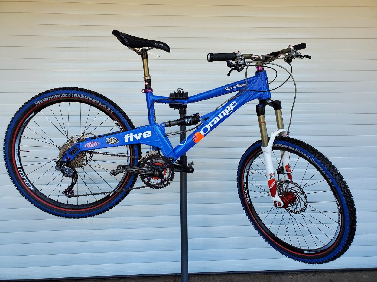 Orange File with hope components.